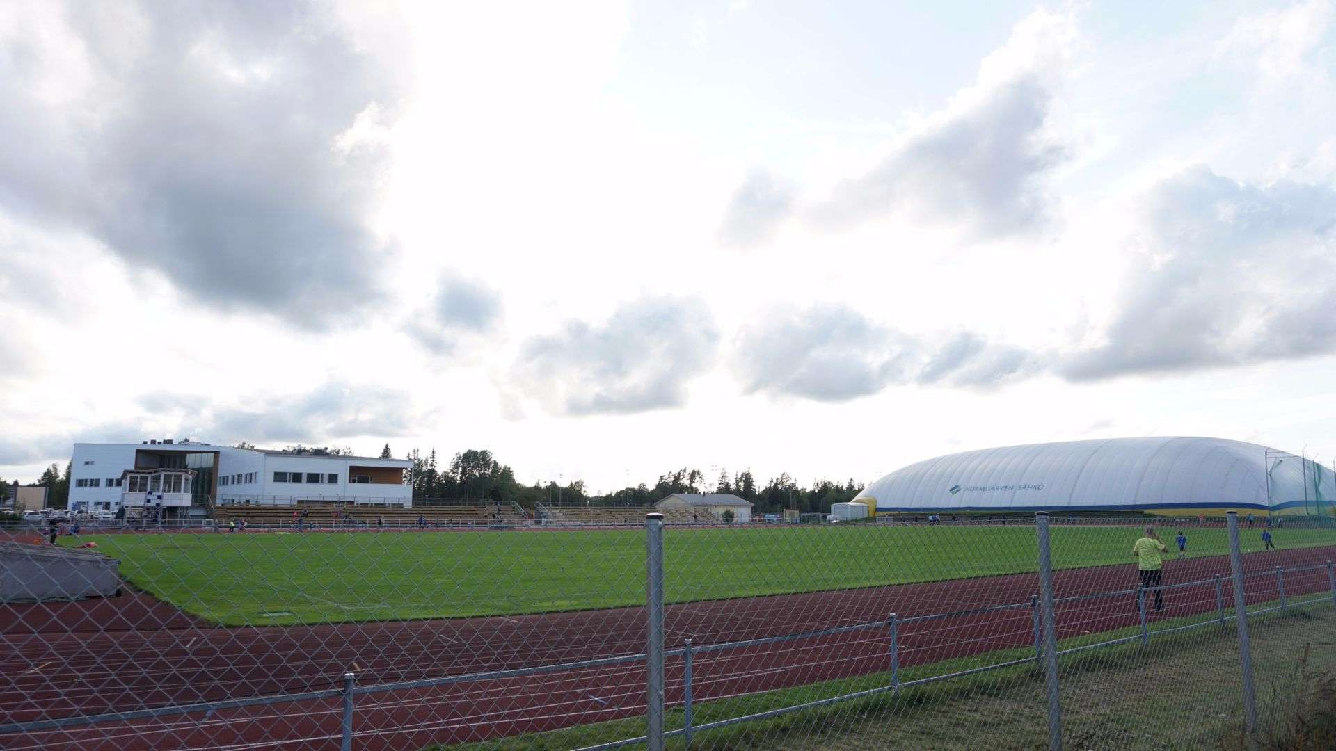 Klaukkalan urheilualue